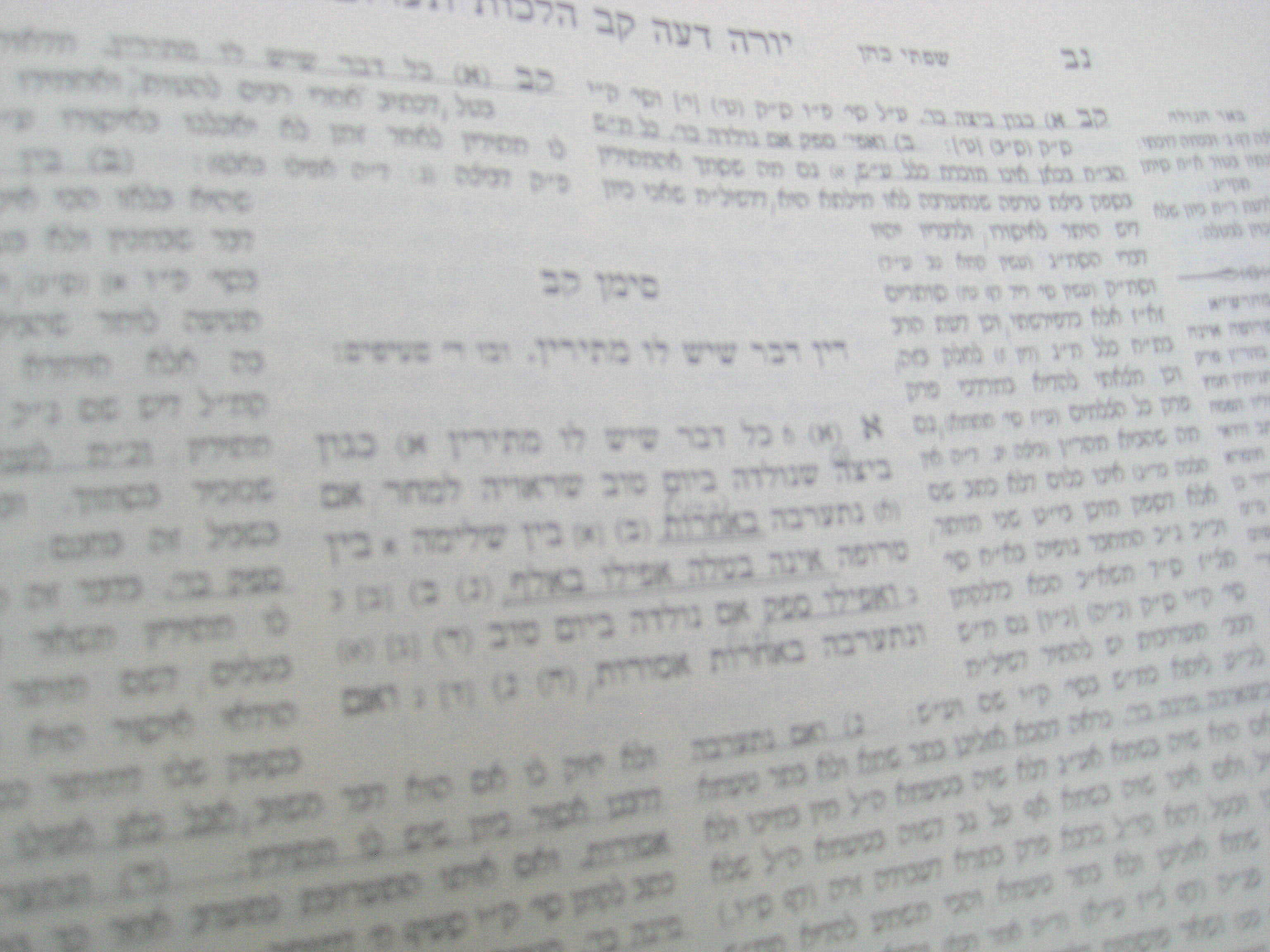 Jewish image- Shulchan Aruch